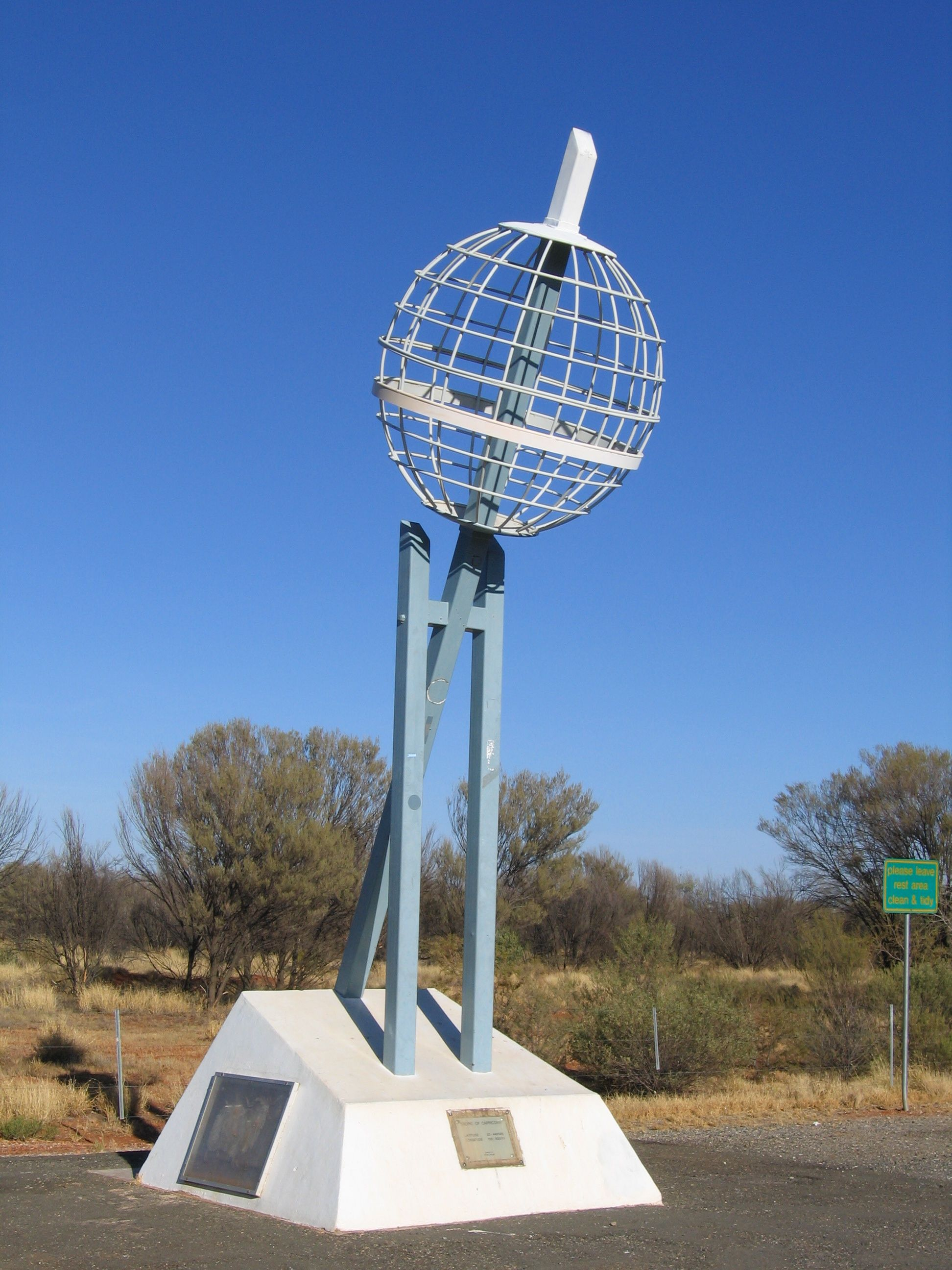 Monument for tropic of capricorn